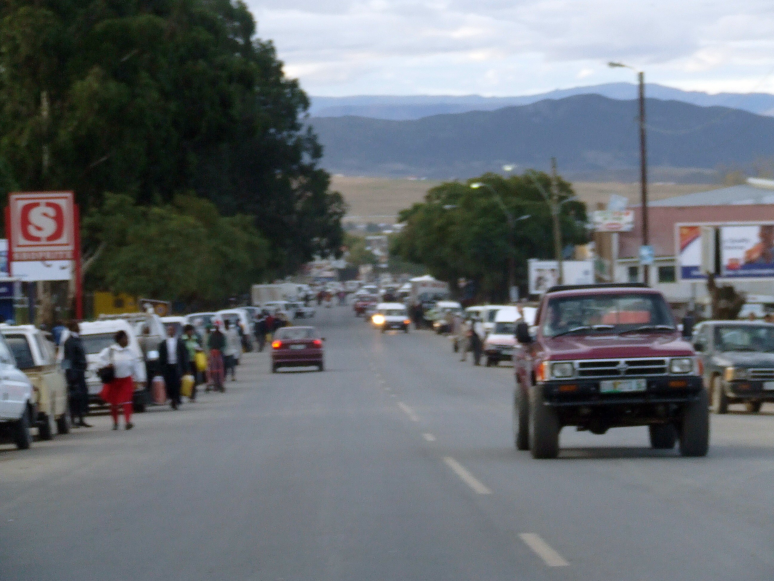 Very busy hectic town with few rules for traffic pedestrians or animals!